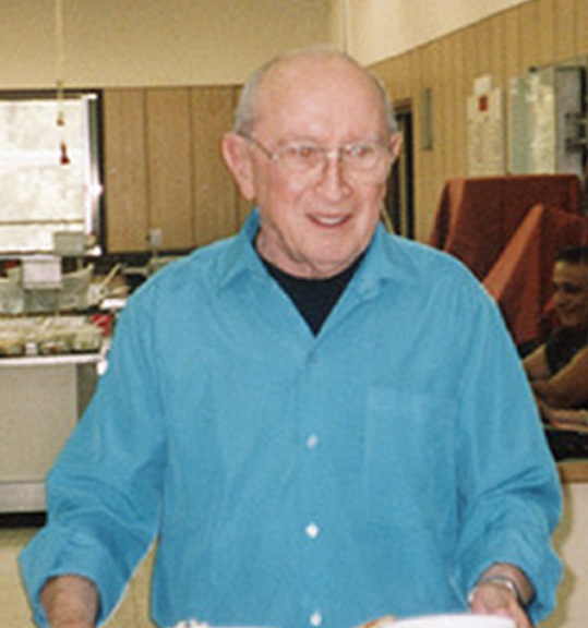 Israeli writer Nathan Shaham in Kibbutz Beit Alfa, November 2000 Hornjoserbsce: Israelski spisowaćel Natan Šacham w Kibbucu Bejt Alfa, nowember 2000